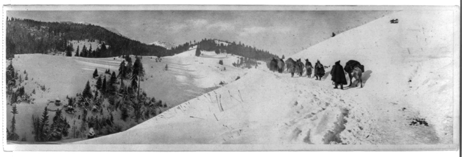 Serbian retreat near Rougovo. Photograph shows soldiers leading their houses across a snowy mountain landscape.